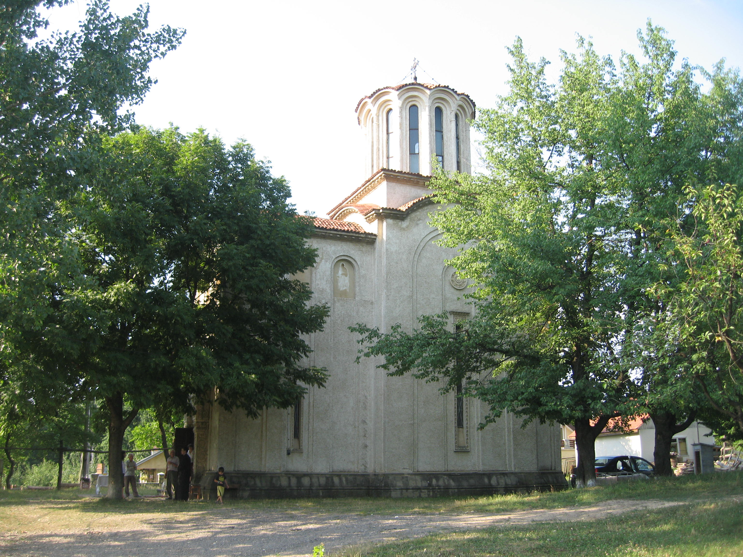 Biserica Sfântul Ioan Botezătorul din Bârnova